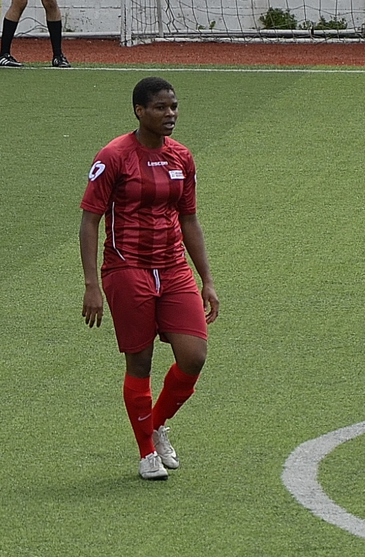 Desire Oparanozie for Ataşehir Belediyespor in the 2013-14 season